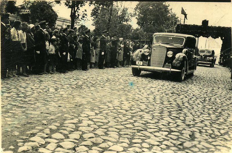 Antanas Smetona riding in a Lincoln Model K car with a license plate K1 in Ukmergė, Lithuania